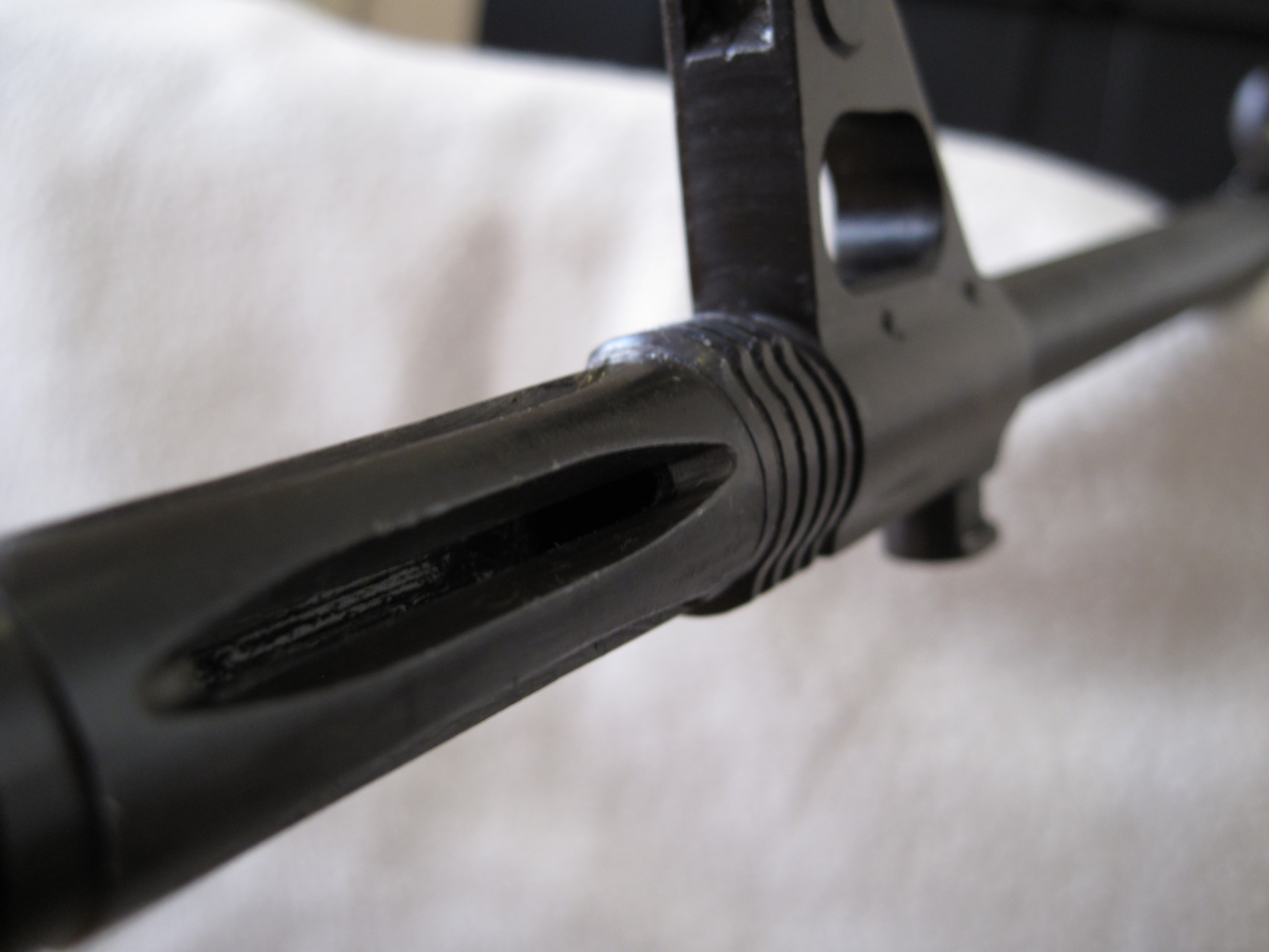 Zastava M-76 screw silencer